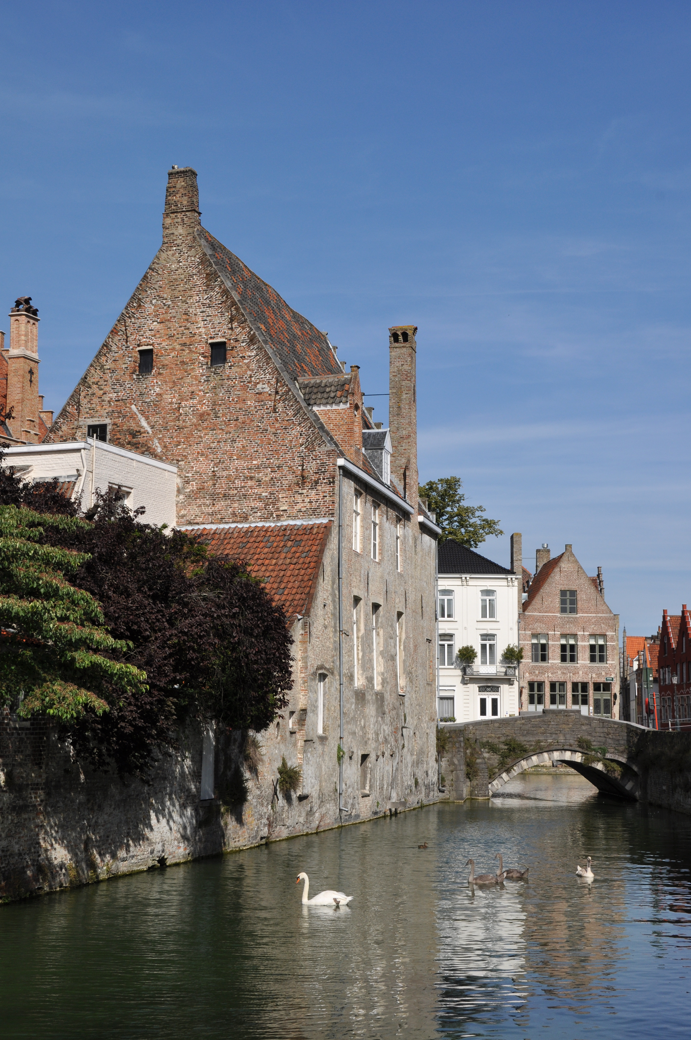 Bruges (Belgium): the Goudenhand canal and bridge